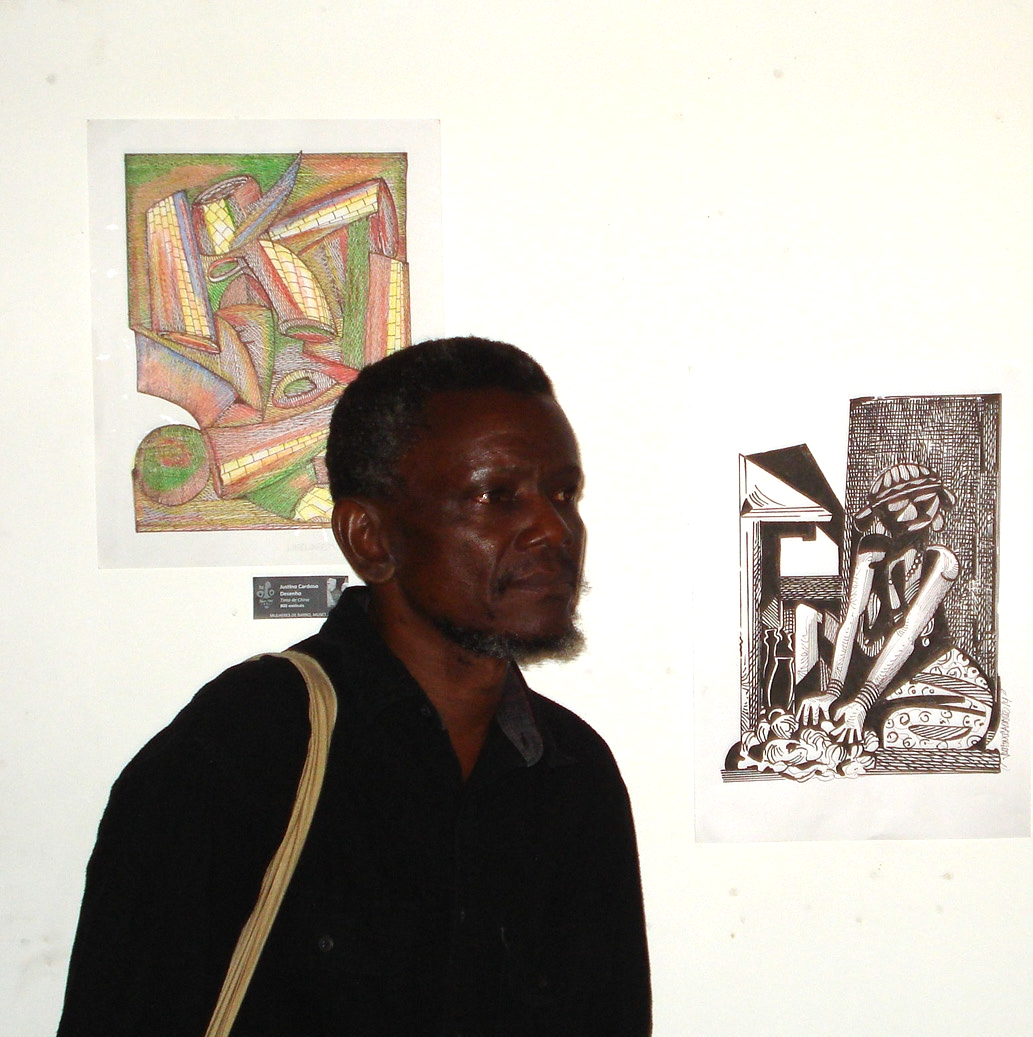 Justino António Cardoso at the National Museum of Ethnology, Nampula (2014)